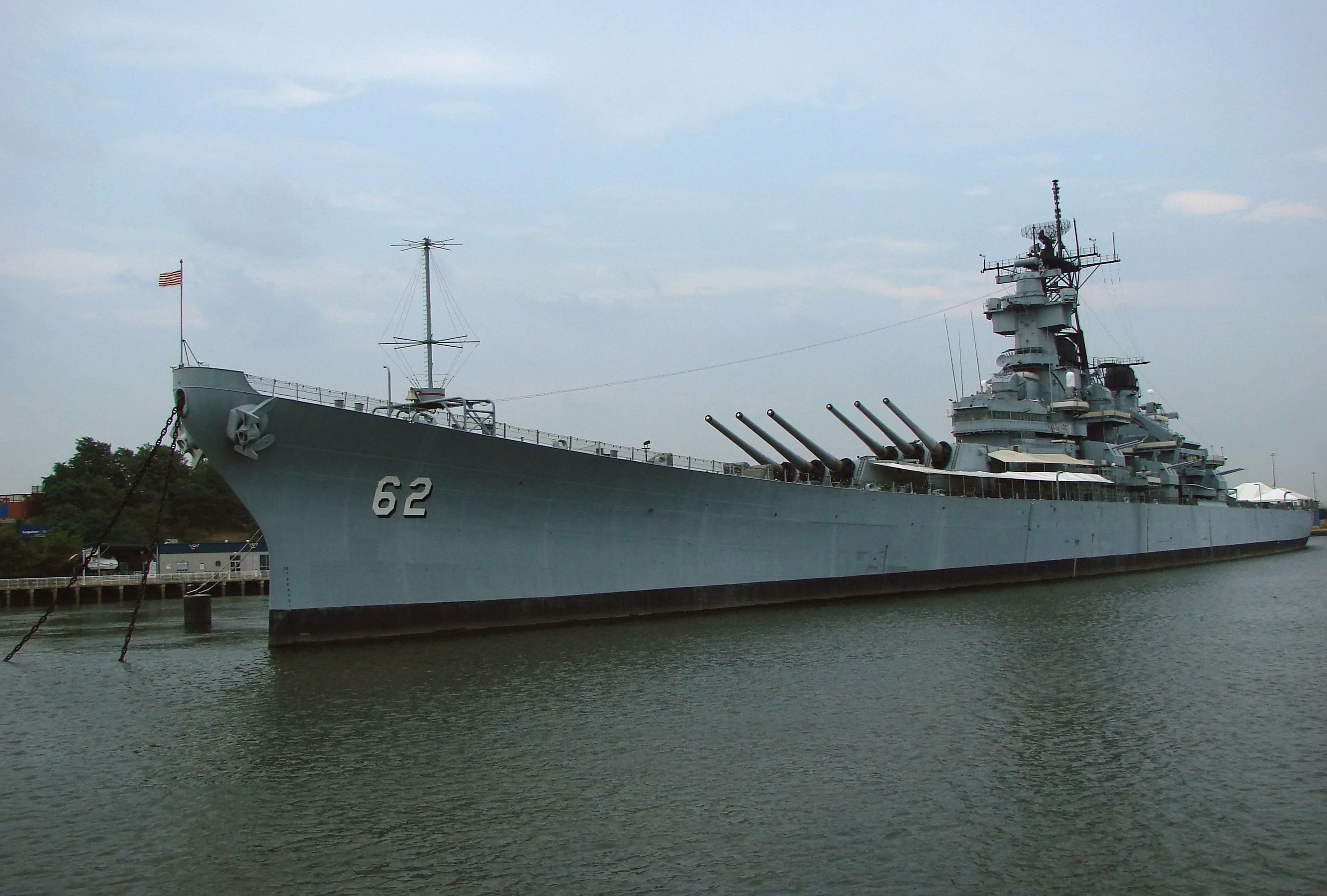 View of the USS New Jersy permanently berthed at Camden, NJ from a river ferry.